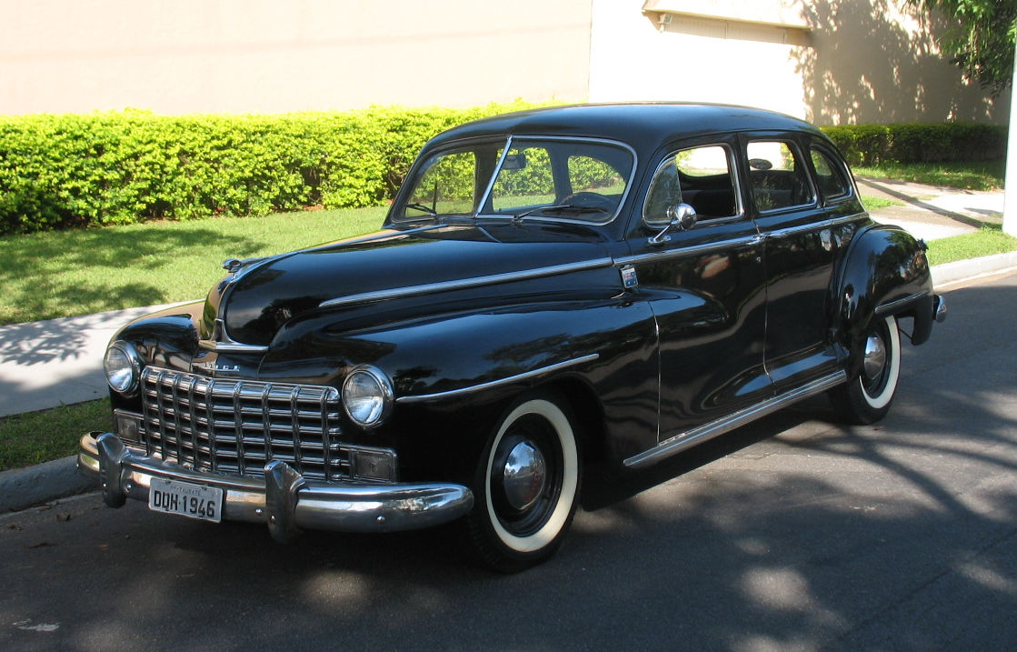 Fluid Drive Dodge